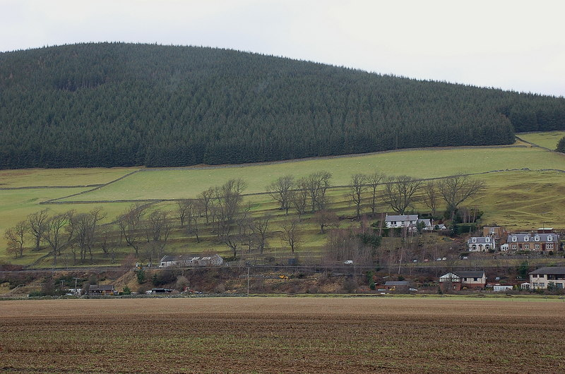 Prominent terraces on the side of Purvis Hill, due west of The Kirna